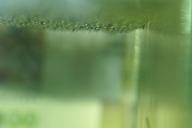 natural photo of baby bettas at the nest